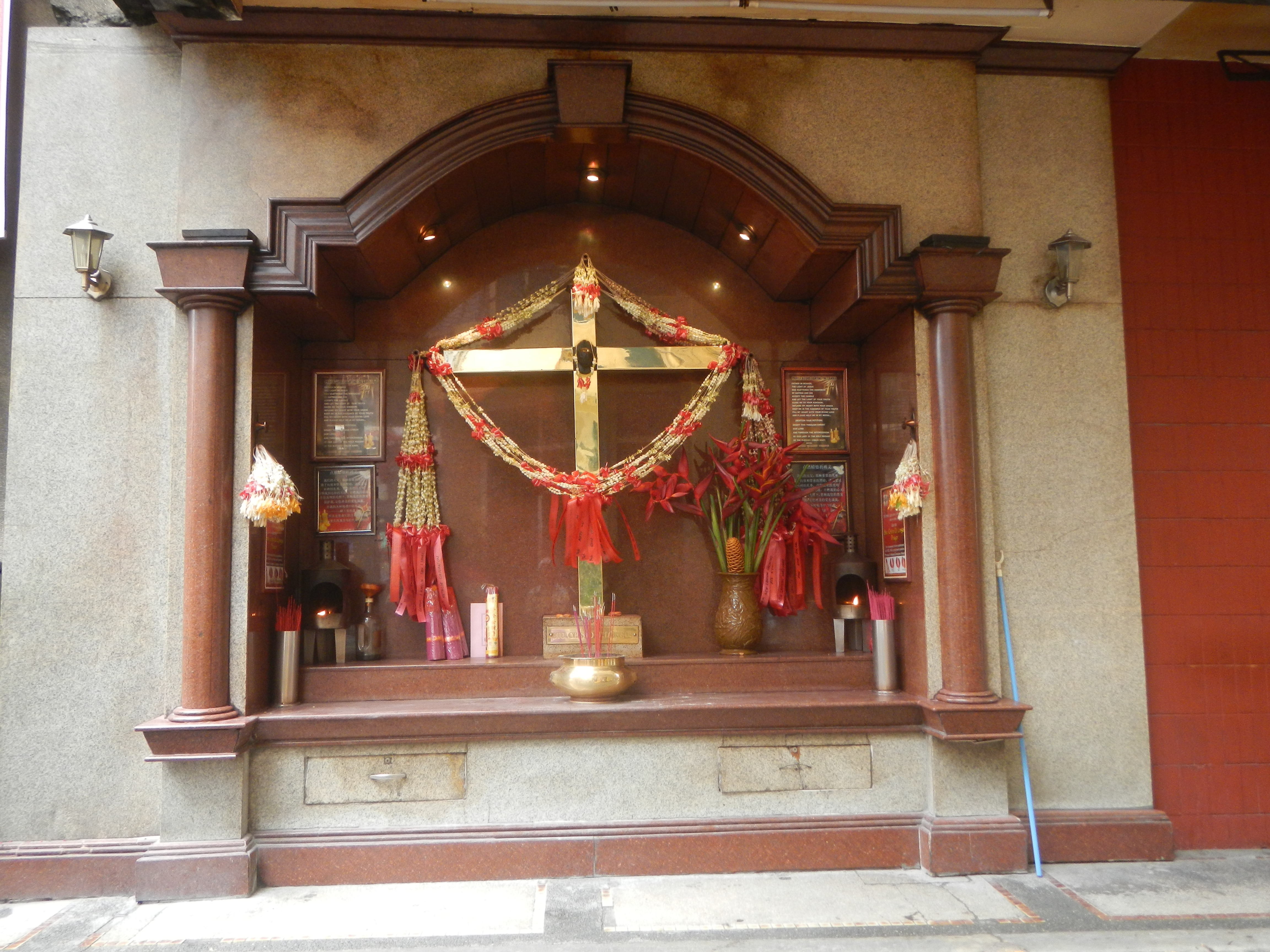 Santo Cristo de Longos (Ongpin Street, Manila Chinatown, Santa Cruz, Manila) (Note: Judge Florentino Floro, the owner, to repeat, Donor Florentino Floro of all these photos hereby donate gratuitously, freely and unconditionally all these photos to and for Wikimedia Commons, exclusively, for public use of the public domain, and again without any condition whatsoever).